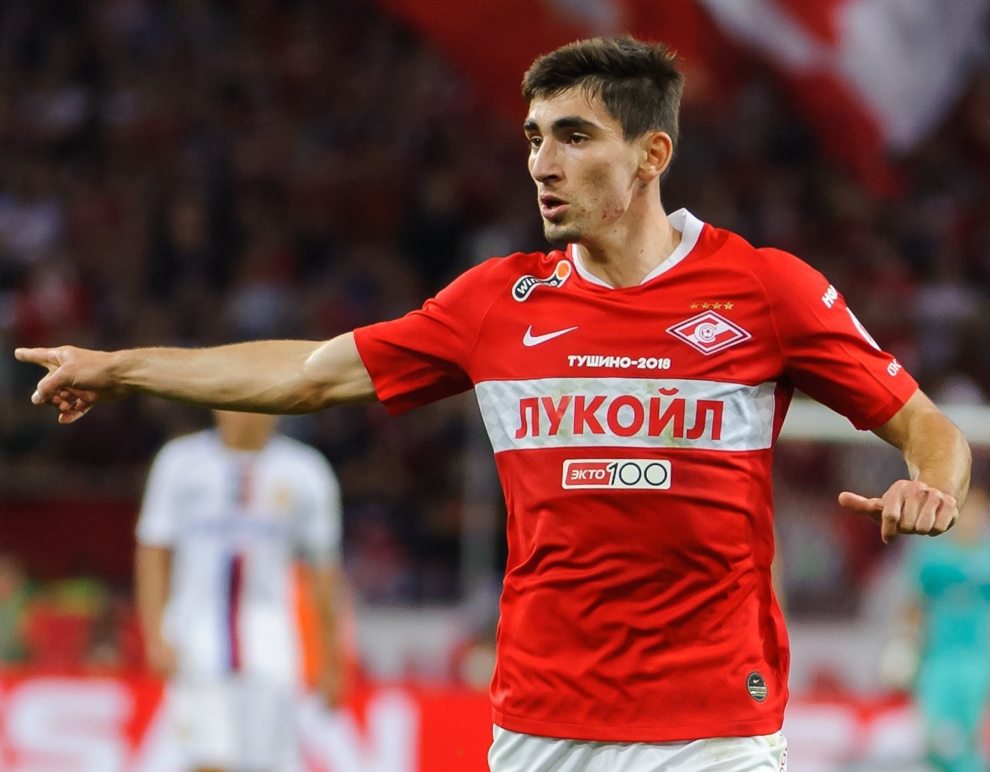 Zelimkhan Bakayev with FC Spartak Moscow in a game against PFC CSKA Moscow.